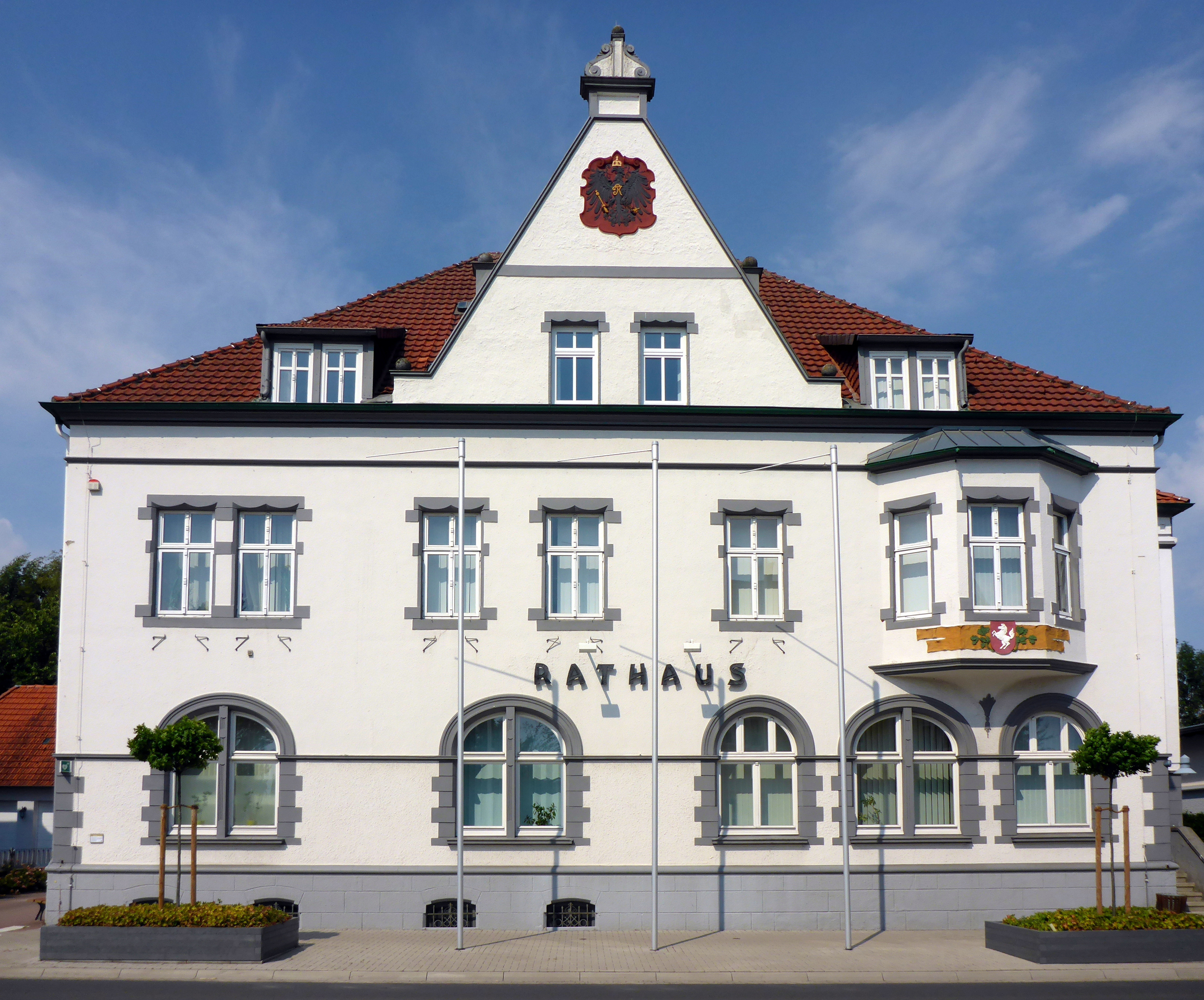 This image shows a heritage building in Germany, located in the North Rhine-Westphalian city Preußisch Oldendorf (no. 9).